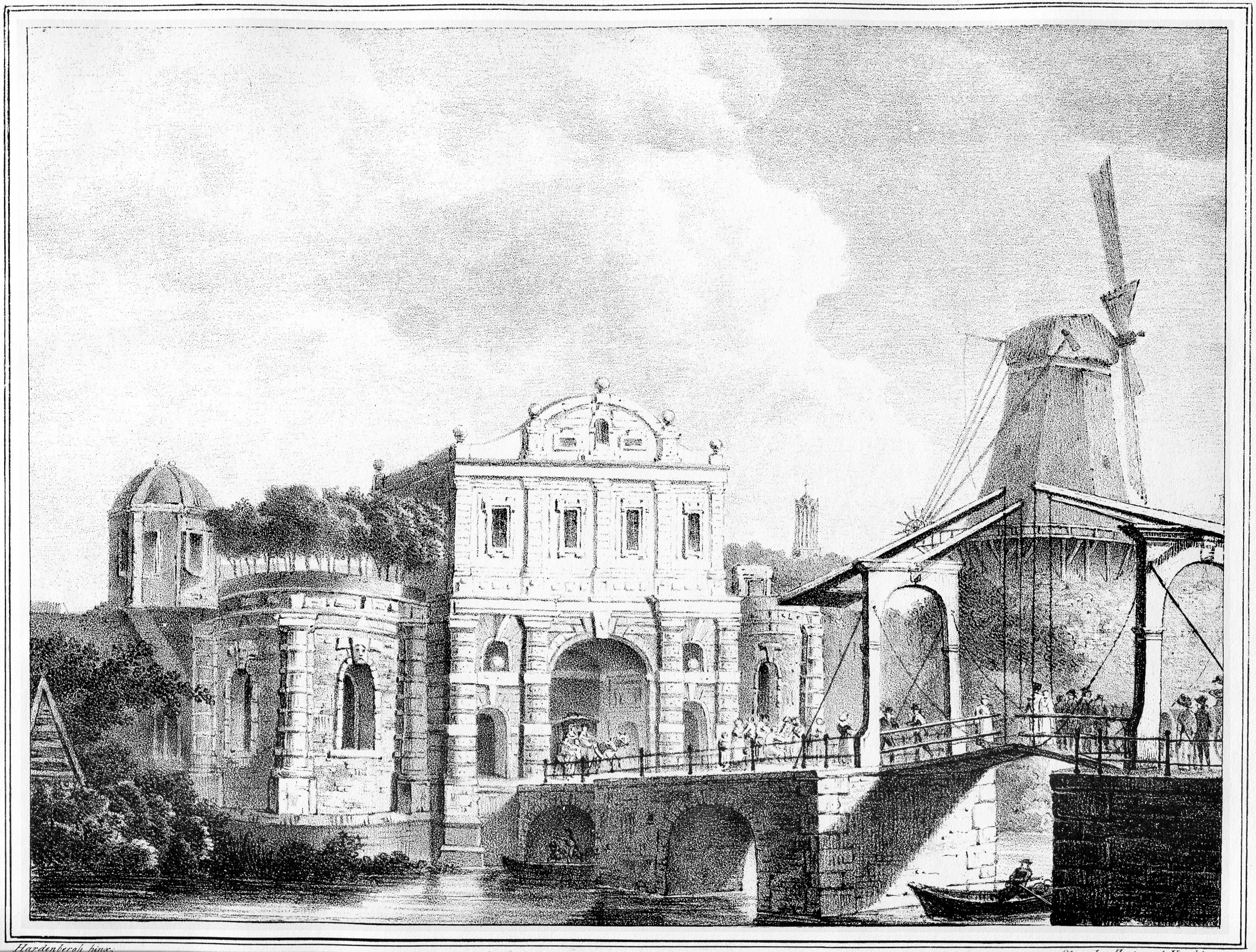 Catharijnepoort, Utrecht